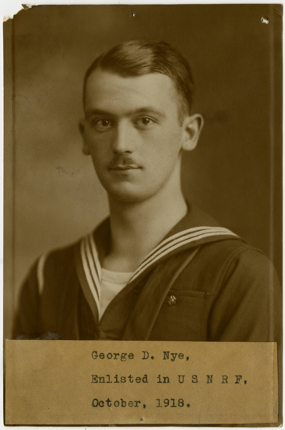 George D. Nye enlisted in the Navy in 1918.